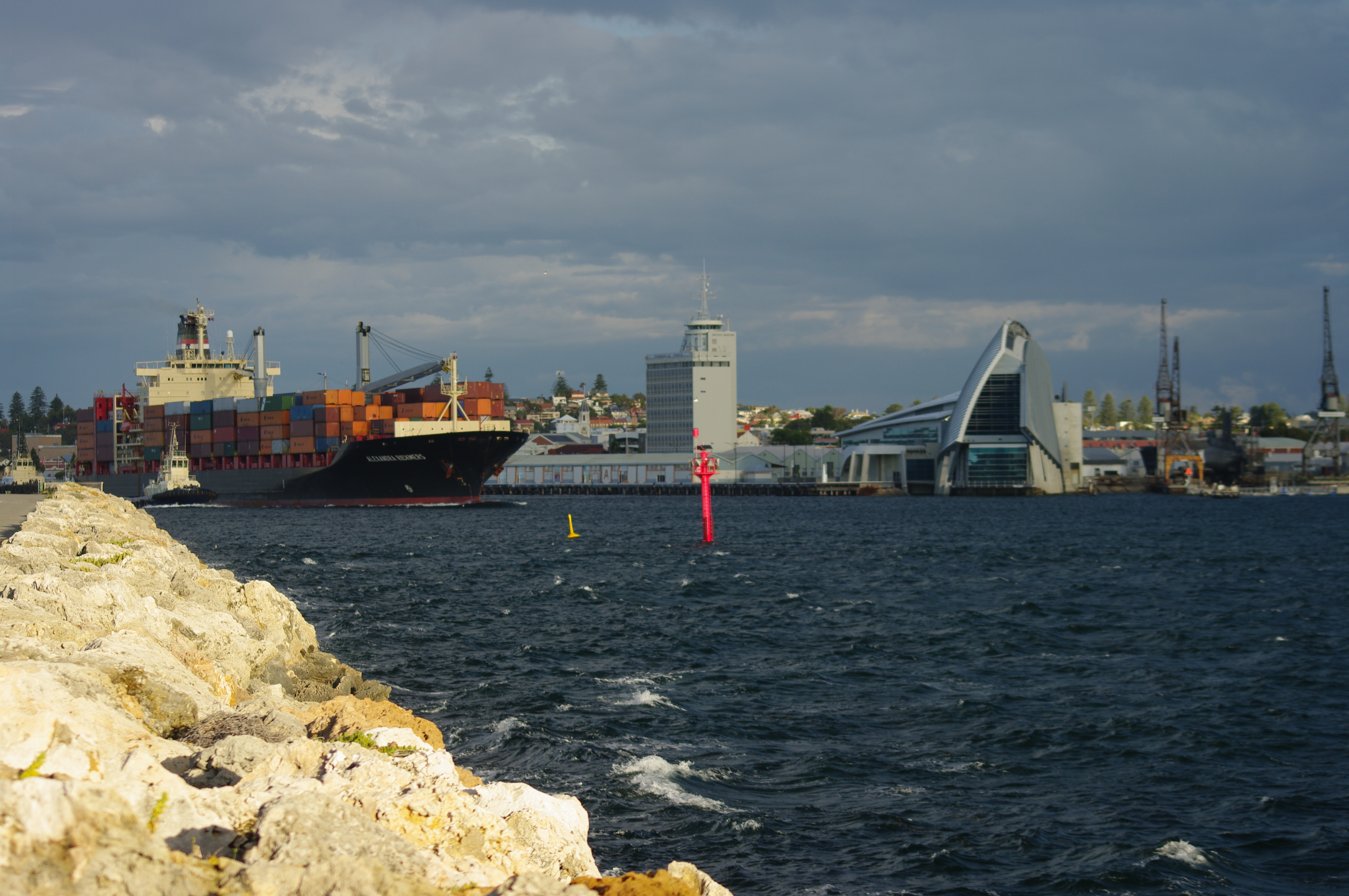 Container ship "Alexandra Rickmers" leaving Fremantle harbour at the mouth of the Swan River